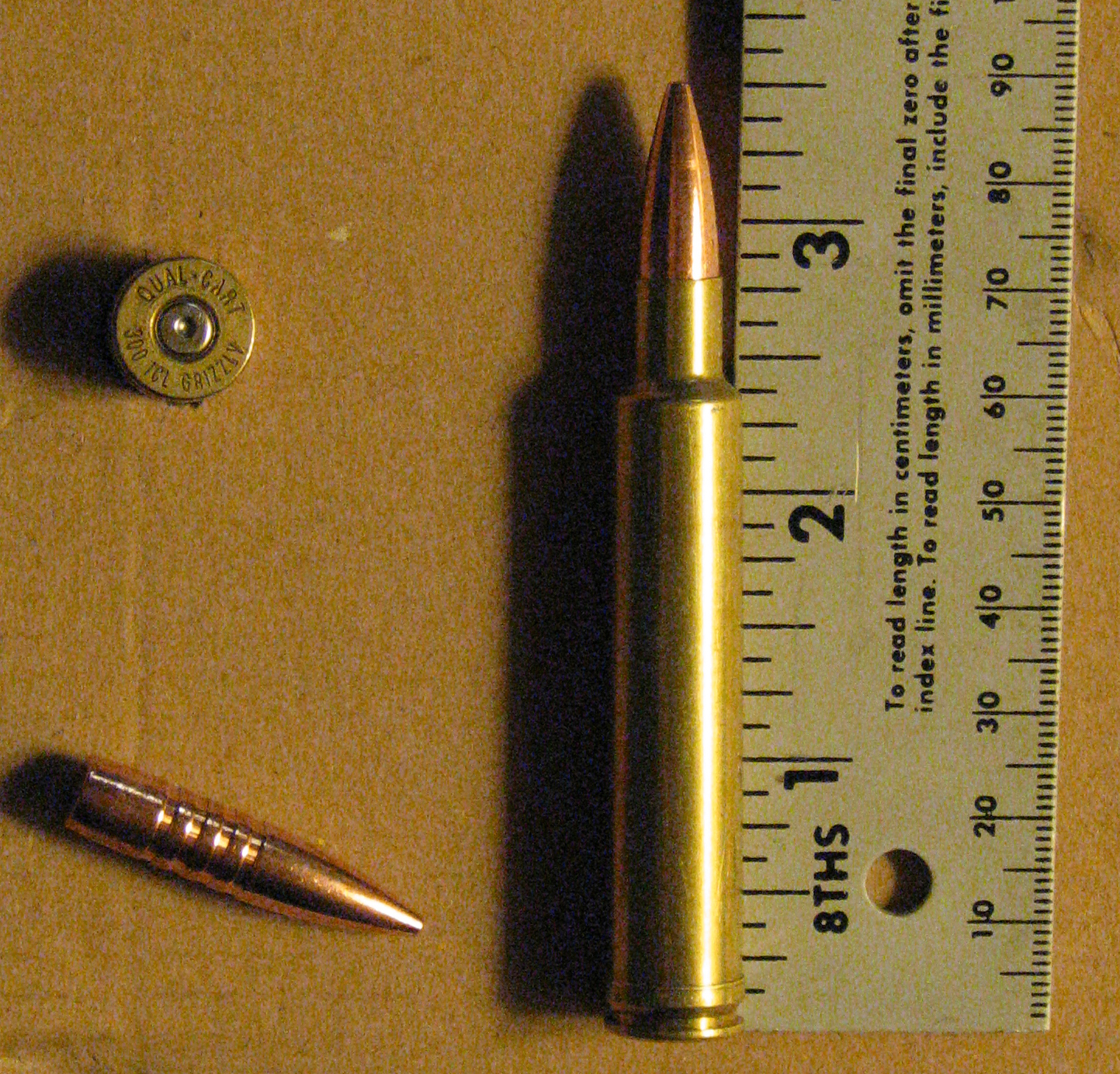 Picture of rifle cartridge .300 ICL Grizzly - shown with 180 grain Barnes Triple-shock bullet